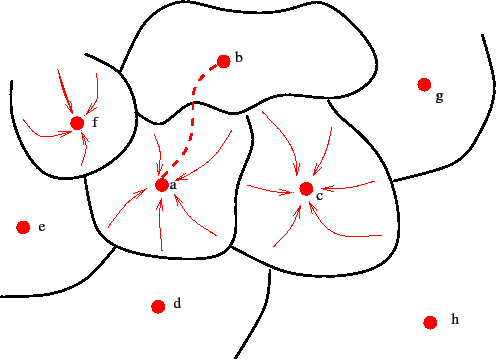 Local search creates attraction basins in the configuration space.